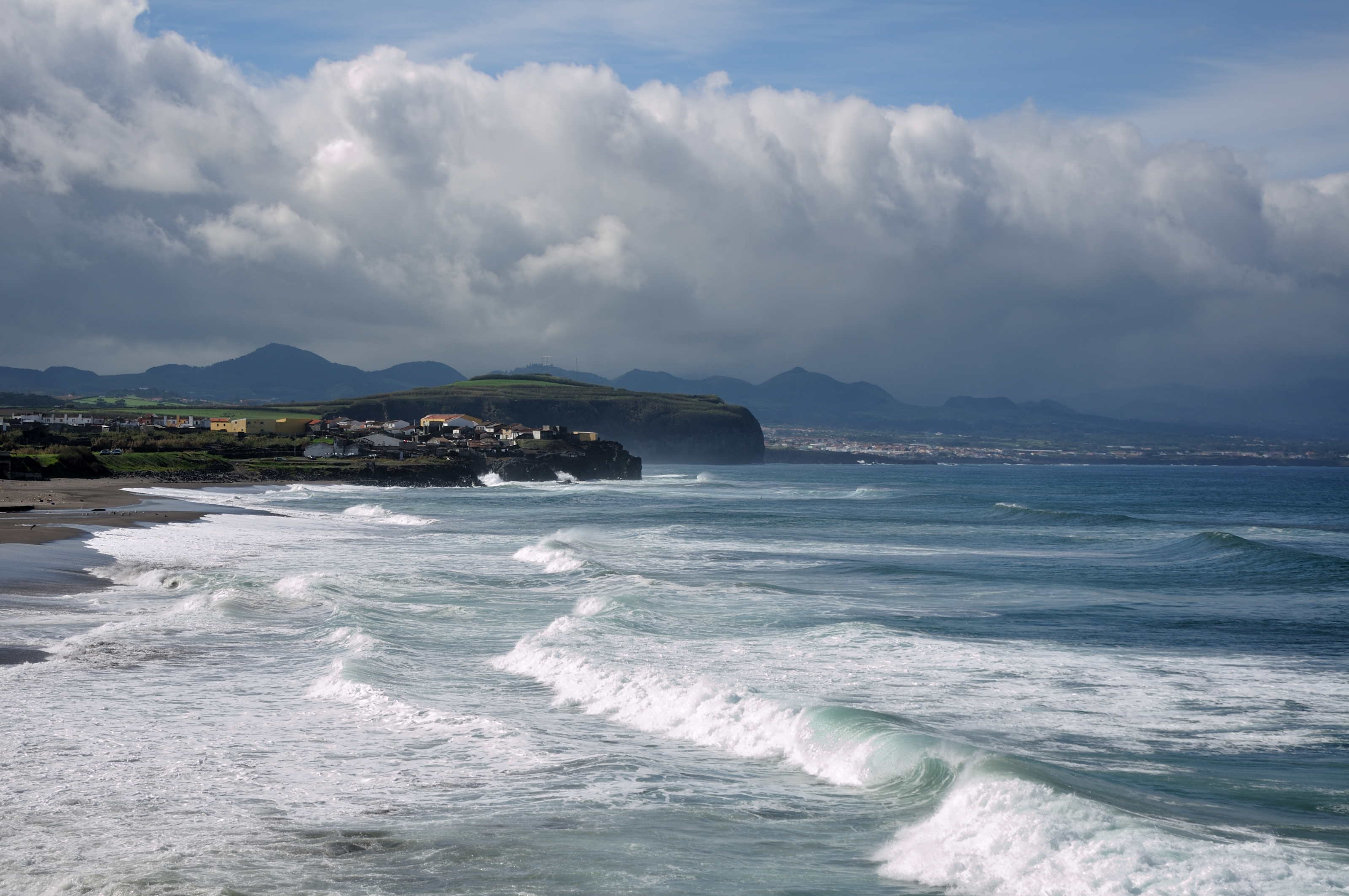 Portugal, stroll through Ribeira Grande